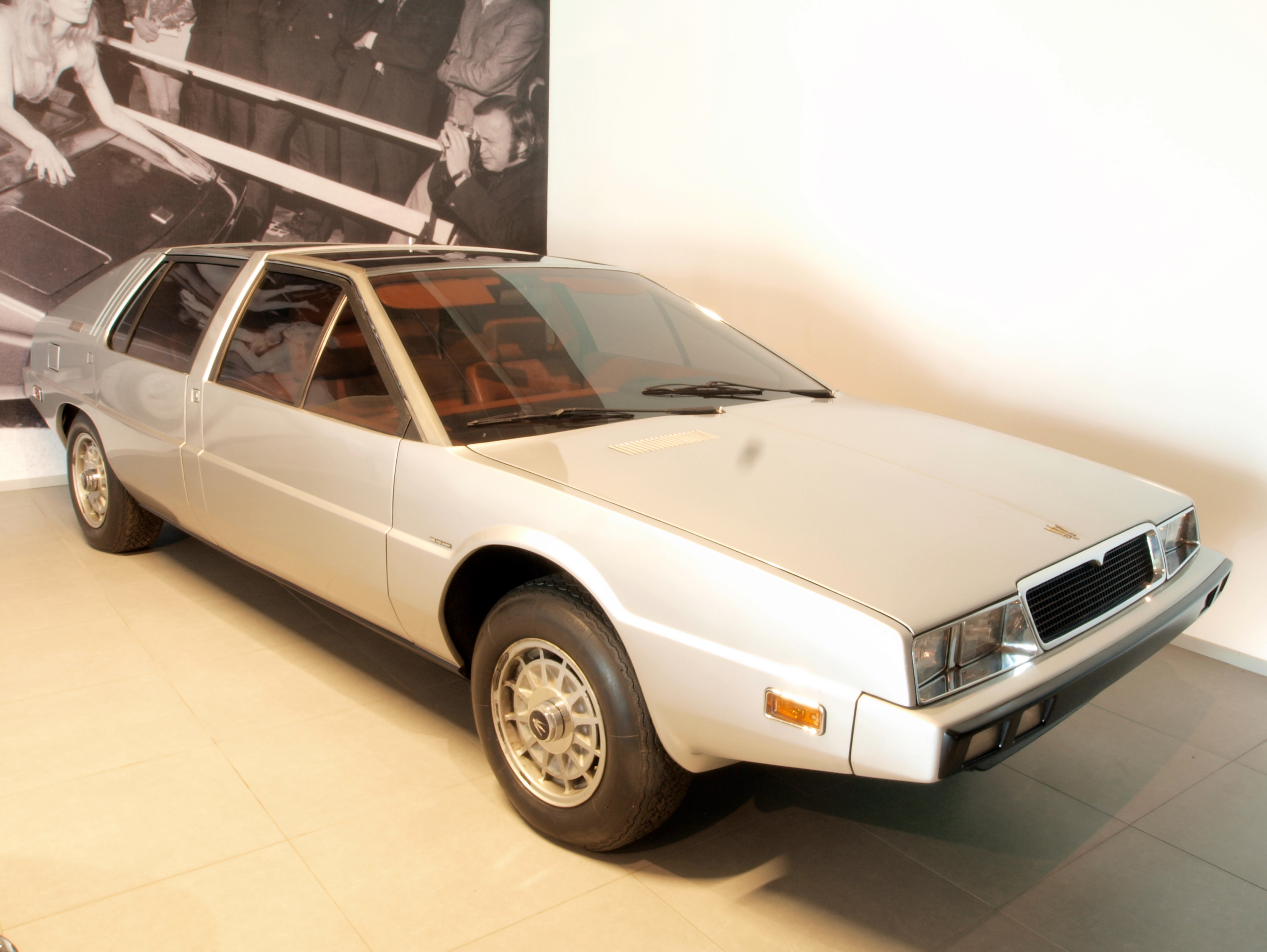 Photographed at the Louwman museum / Louwman Collection, The Netherlands.